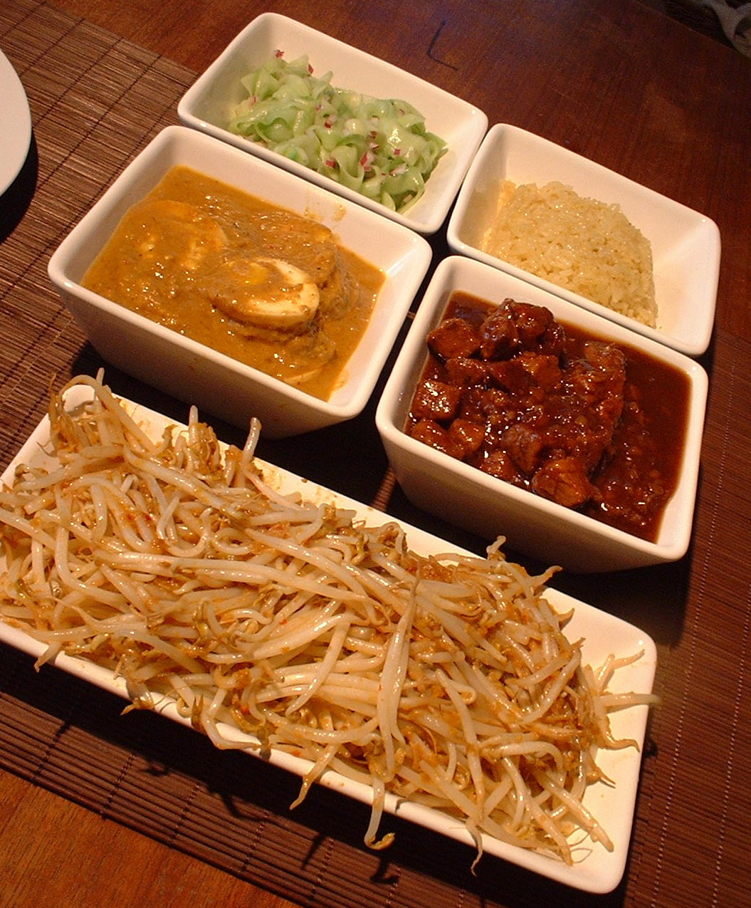 Sambal Goreng Beansprout. Babi Ketjap. Besengek Telor. Cucumber, sweet and sour. Nasi Kuning. All from: Groot Indonesisch Kookboek by Beb Vuyk